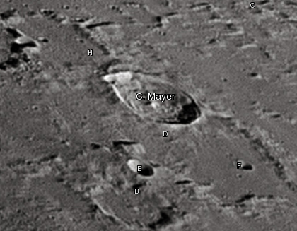 C. Mayer lunar crater as seen from Earth with satellite craters labeled